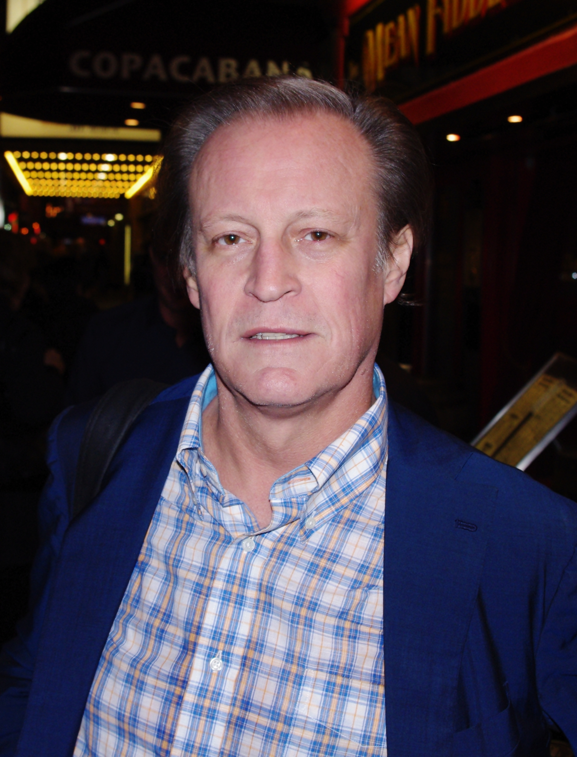 Patrick McMullan at the Copacabana in New York for the launch of Michael Musto's new book, Fork on the Left, Knife in the Back.